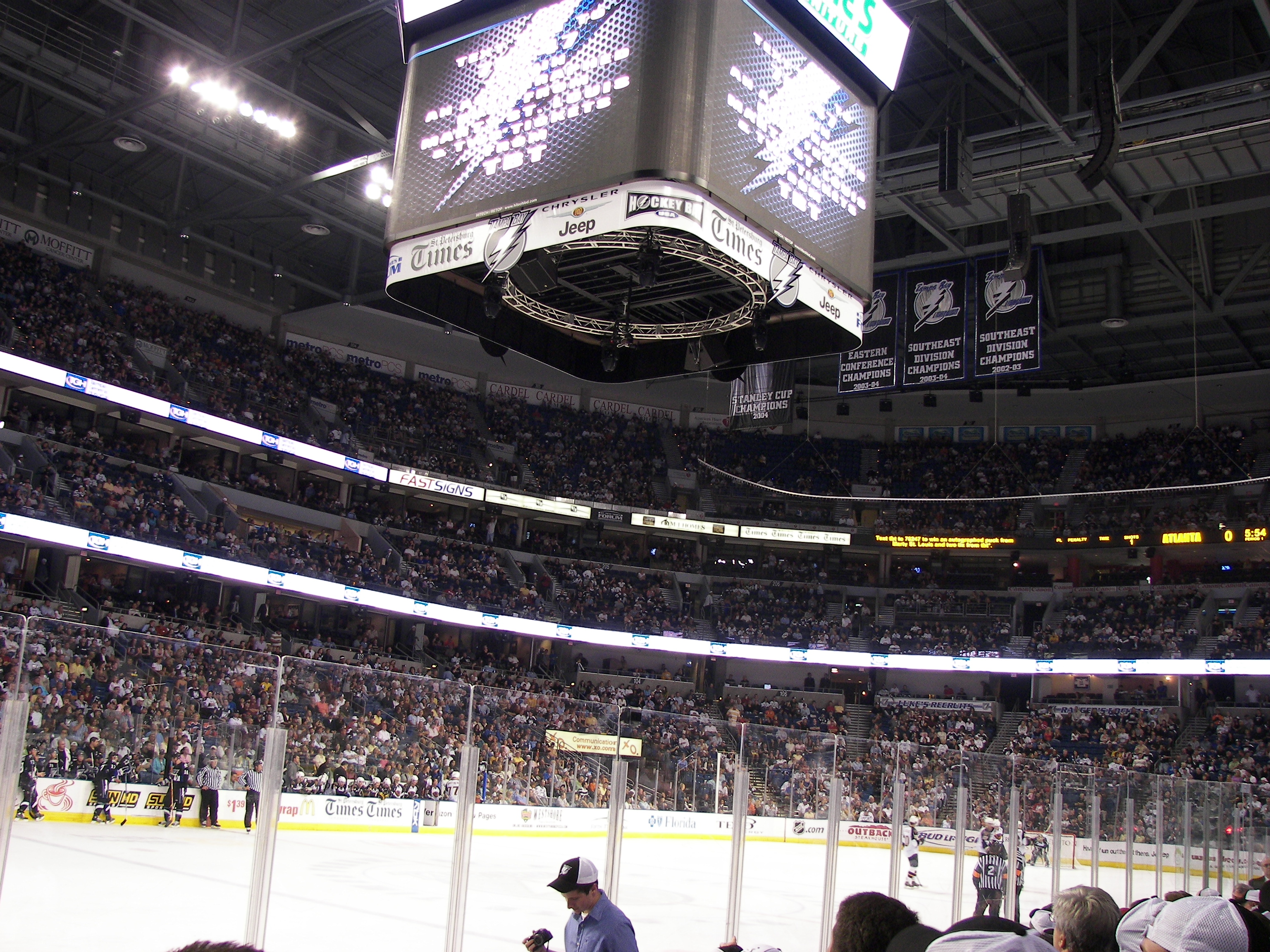 Interior of the St. Pete Times Forum in Tampa, Florida during a Tampa Bay Lightning vs. Atlanta Thrashers ice hockey game on October 20, 2007.